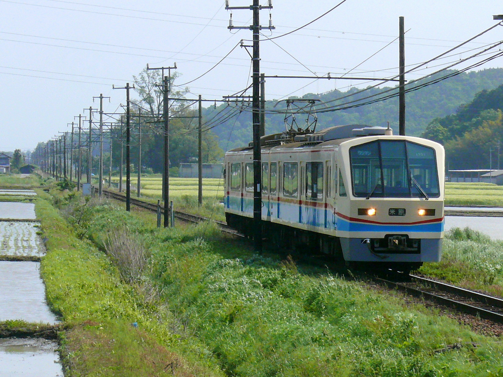 Ohmi Railway Type 700 EMU. Taking a picture from Kawabenomori Station platform in Ohmi Railway line.